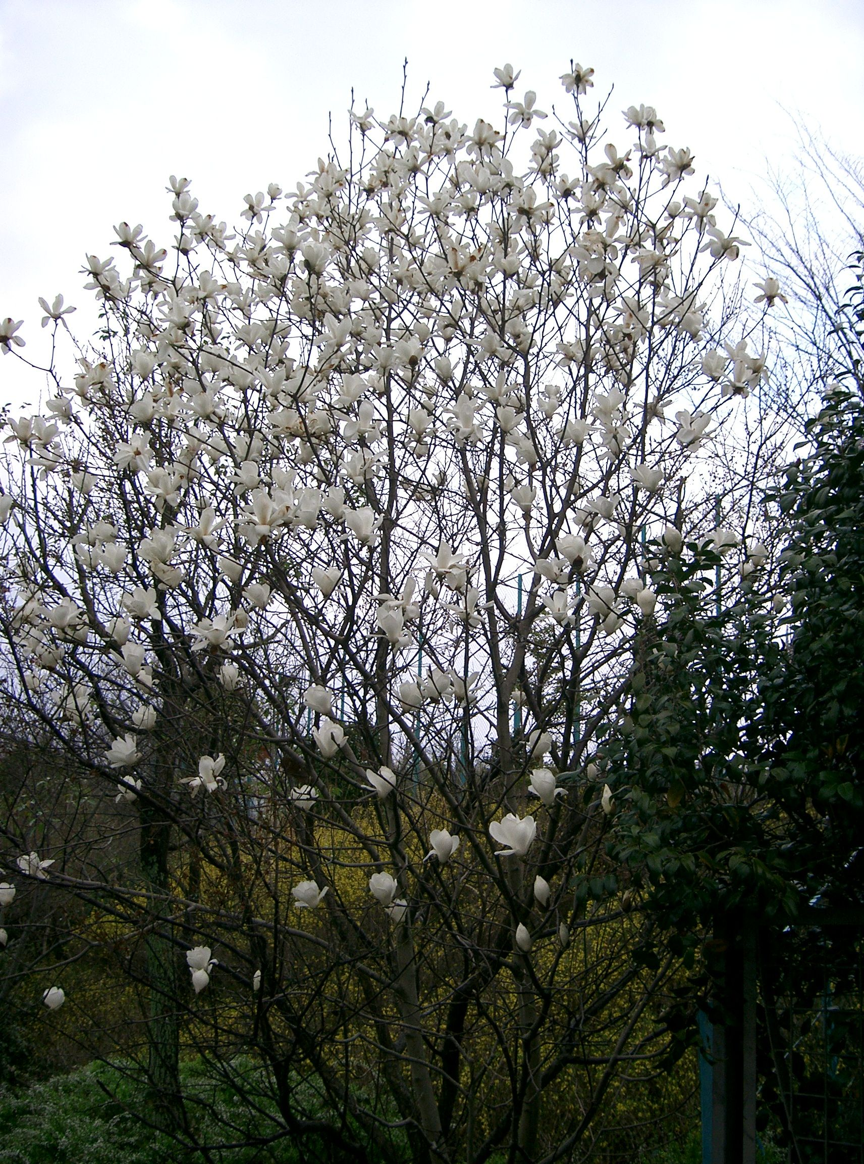 Magnolia denudata tree photographed in Osaka-fu Japan